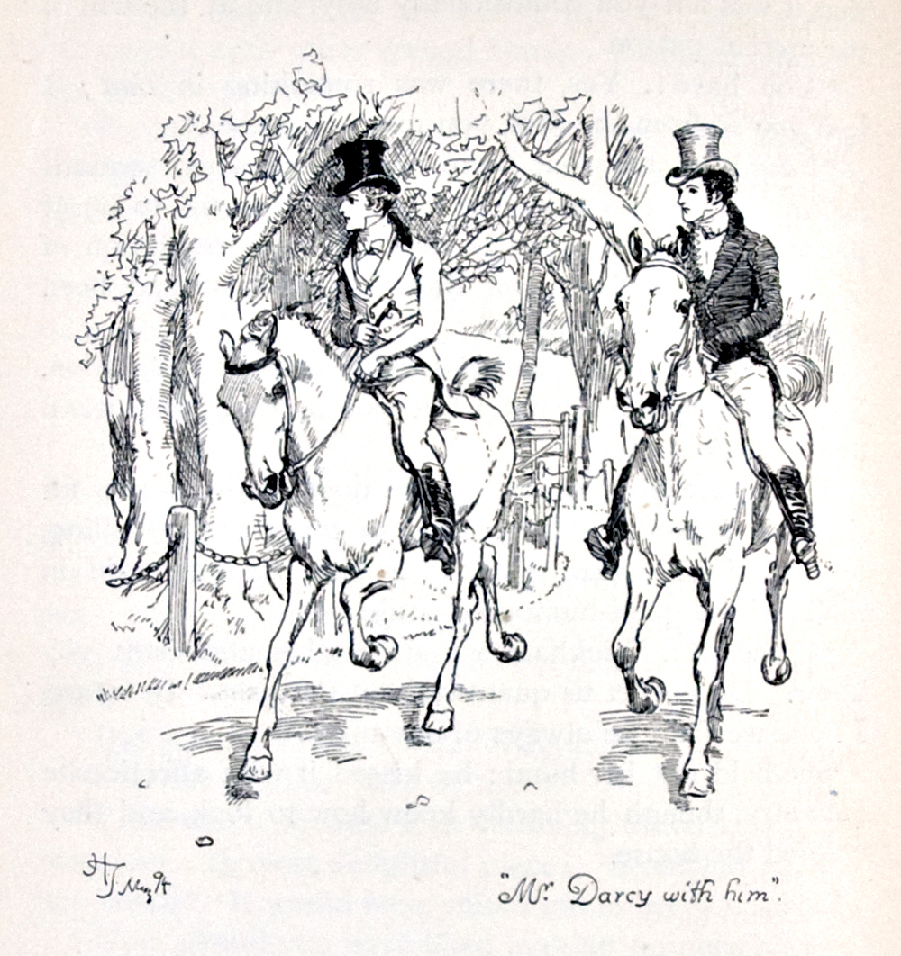 "Mr Darcy with him" - Mr. Darcy and Mr. Bingley. Austen, Jane. Pride and Prejudice. London: George Allen, 1894.